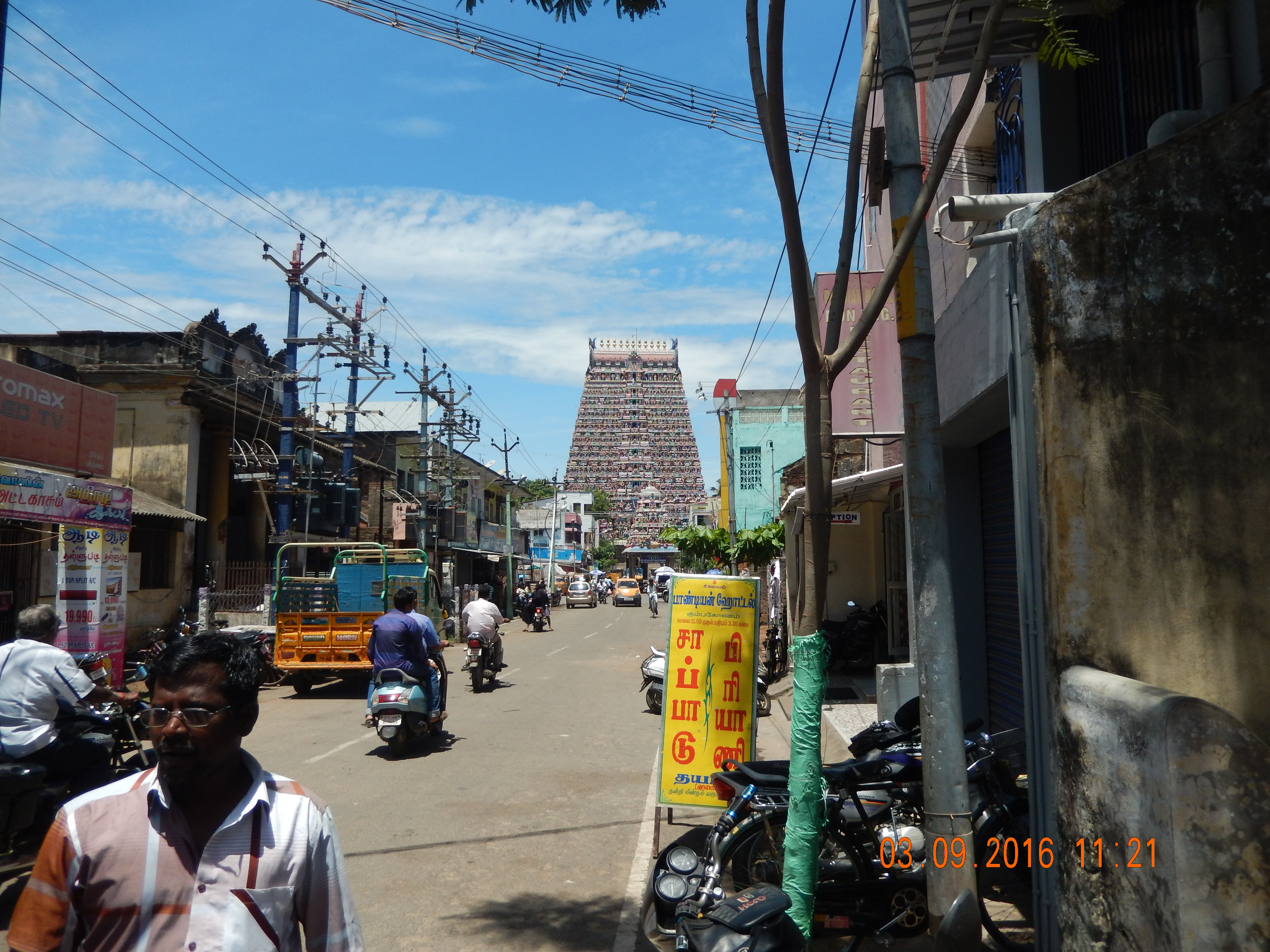 Sarangapani Temple Street today